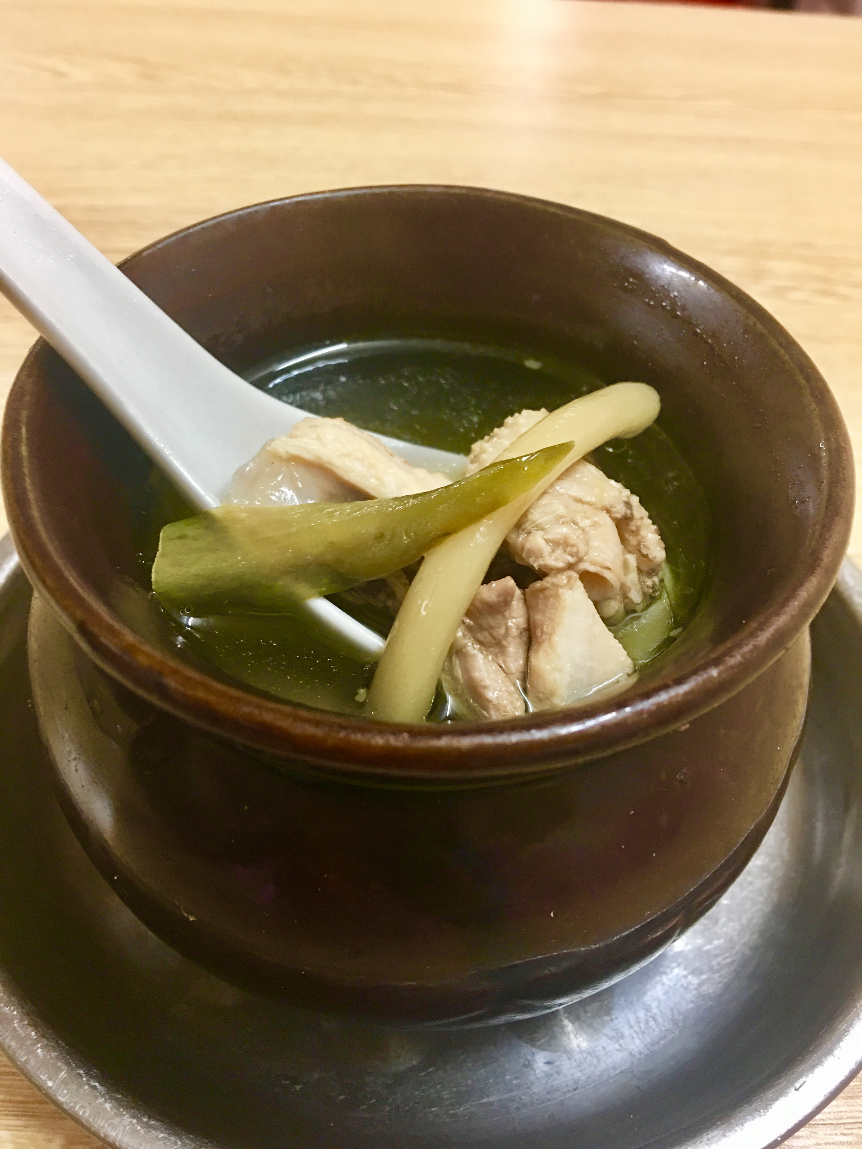 A certain type of Nanchang jar soup, which contains ingredients like chickens and dry pitaya flower.This photo was taken on Dec.6.2016 in East Gate of Shantou university.